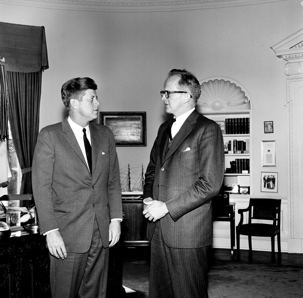 KN-25744 17 December 1962 Meeting with the US Ambassador to El Salvador, Murat W. Williams, 1:05PM. Please credit "Robert Knudsen. White House Photographs. John F. Kennedy Presidential Library and Museum, Boston"